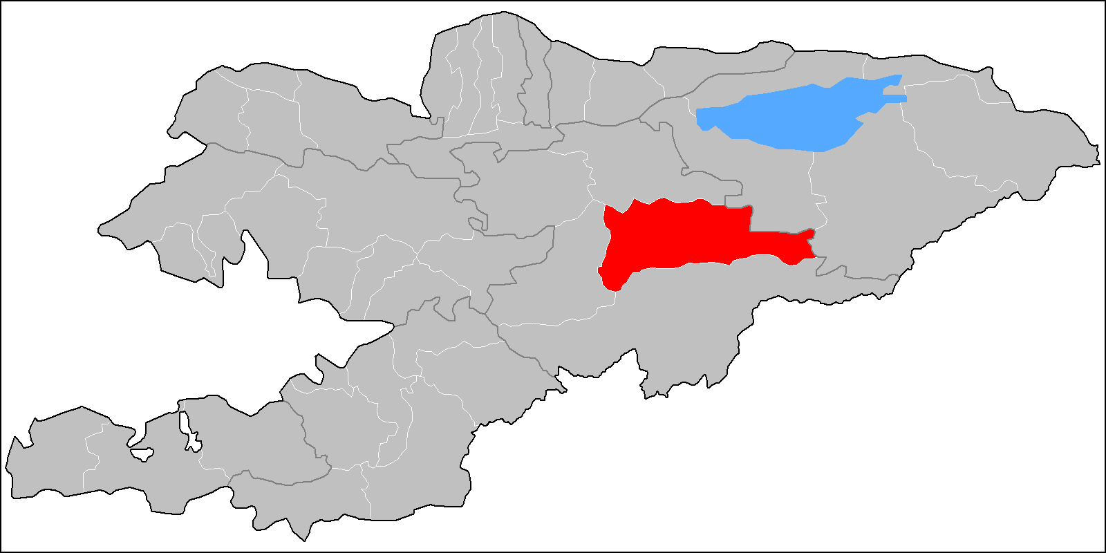 The location of the raion (district) of Tyan'-Shan' in Kyrgyzstan. Based on Image:Kyrgyzstan raions.png